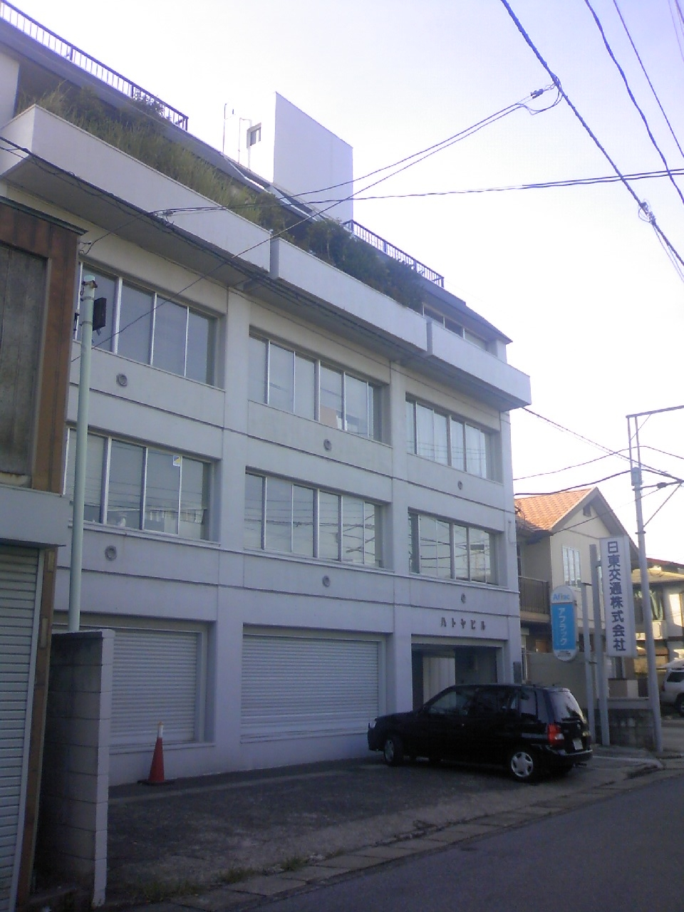 This is the head office building of Nitto Kotsu, Japan.